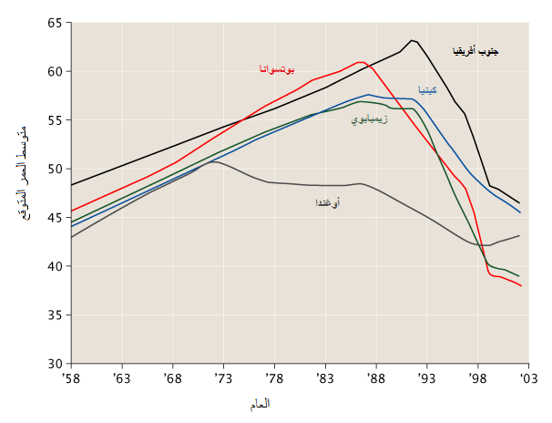 Life expectancy in some Southern African countries 1958 to 2003